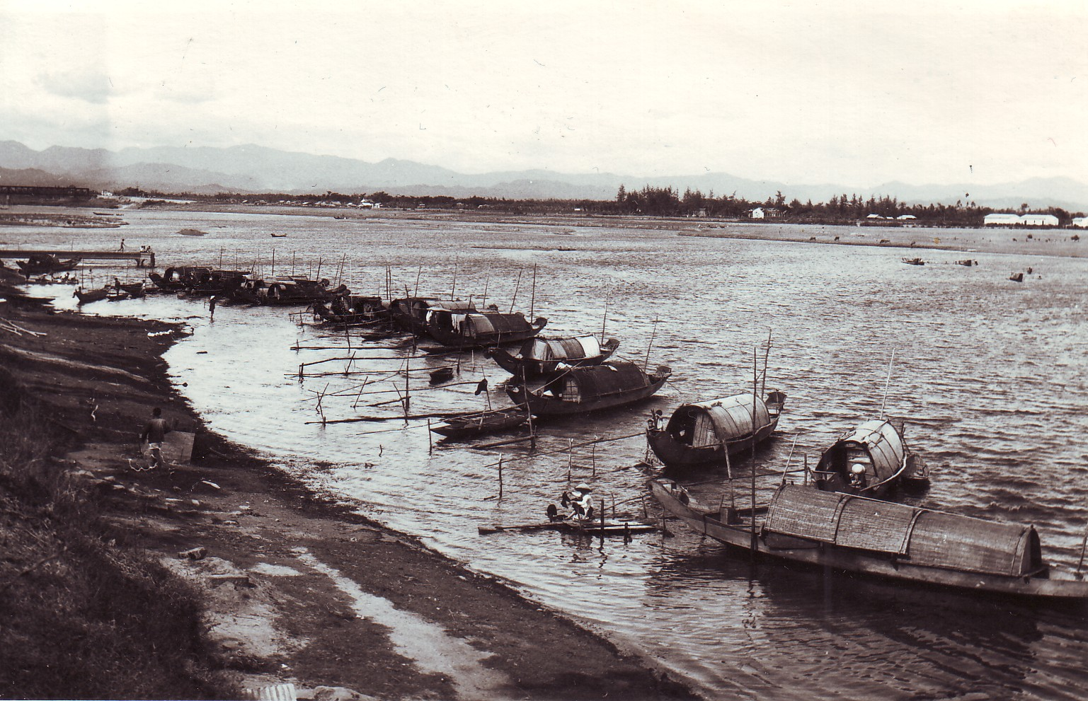 Sampans along the Thach Han River, Quang Tri Province Vietnam, August 1967.